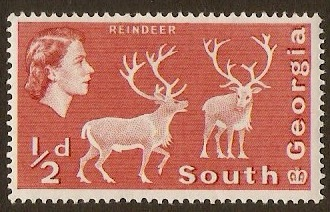 Halfpenny stamp from Soth Georgia showing reindeer (SG #1)